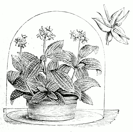 Figure from book